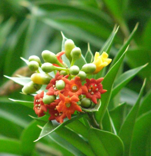 More flowers and the stiff, pointy leaves that remind one of Podocarpus nagi.